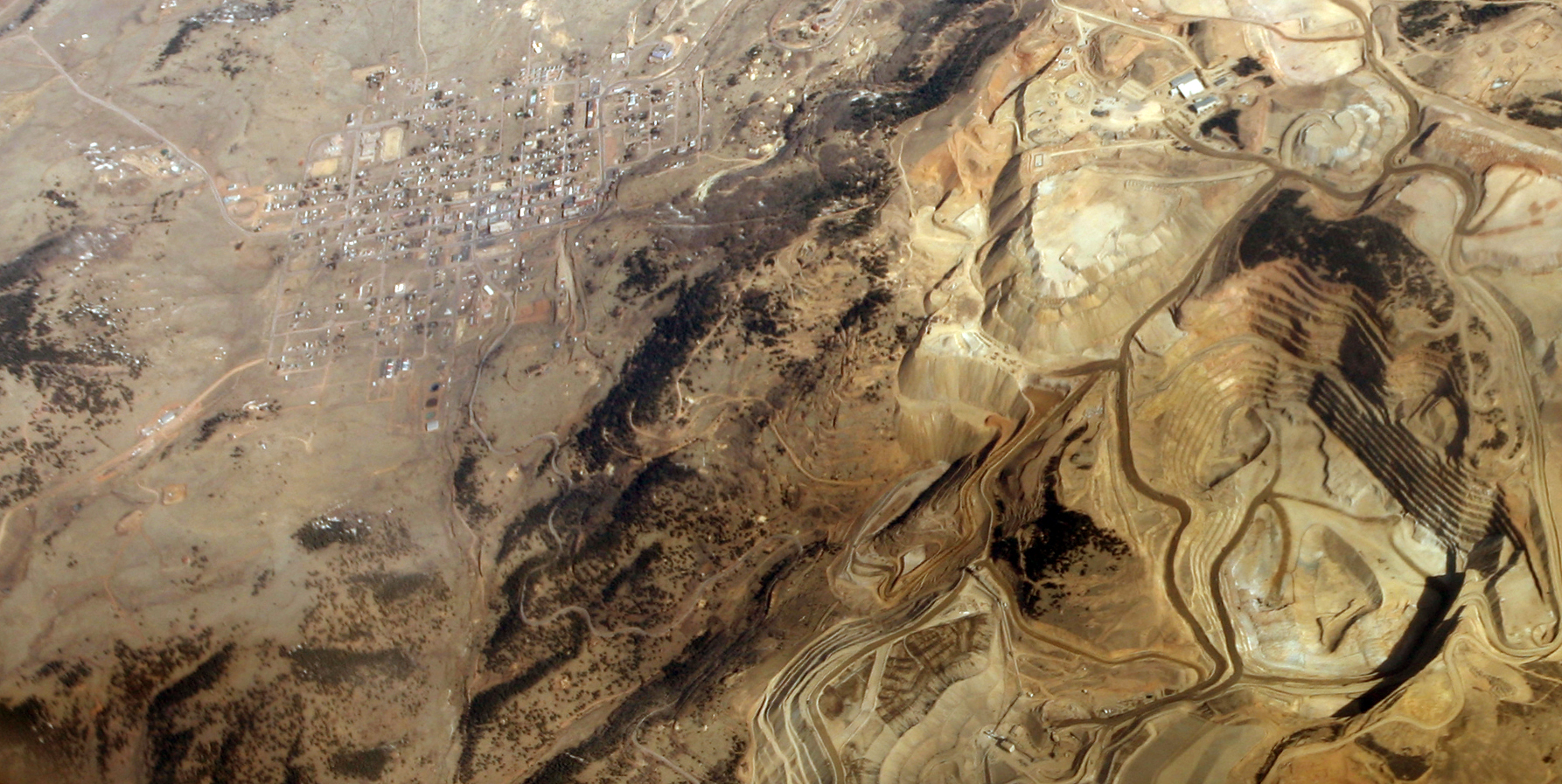 Cripple Creek, Colorado and the Cresson open-pit gold mine there.